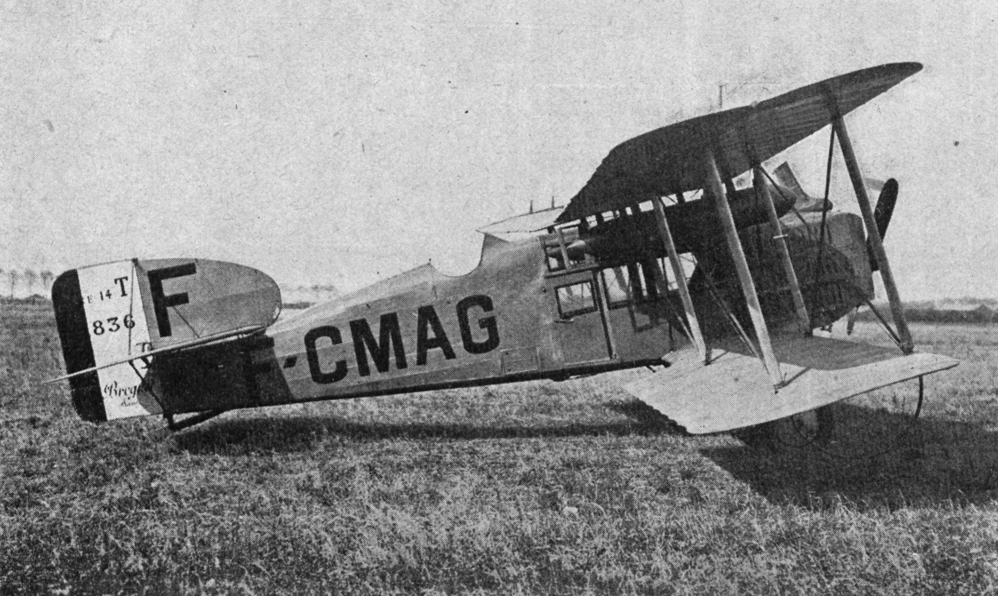 A Breguet 14 T, registered F-CMAG, of the French airline Compagnie des Messageries Aériennes.